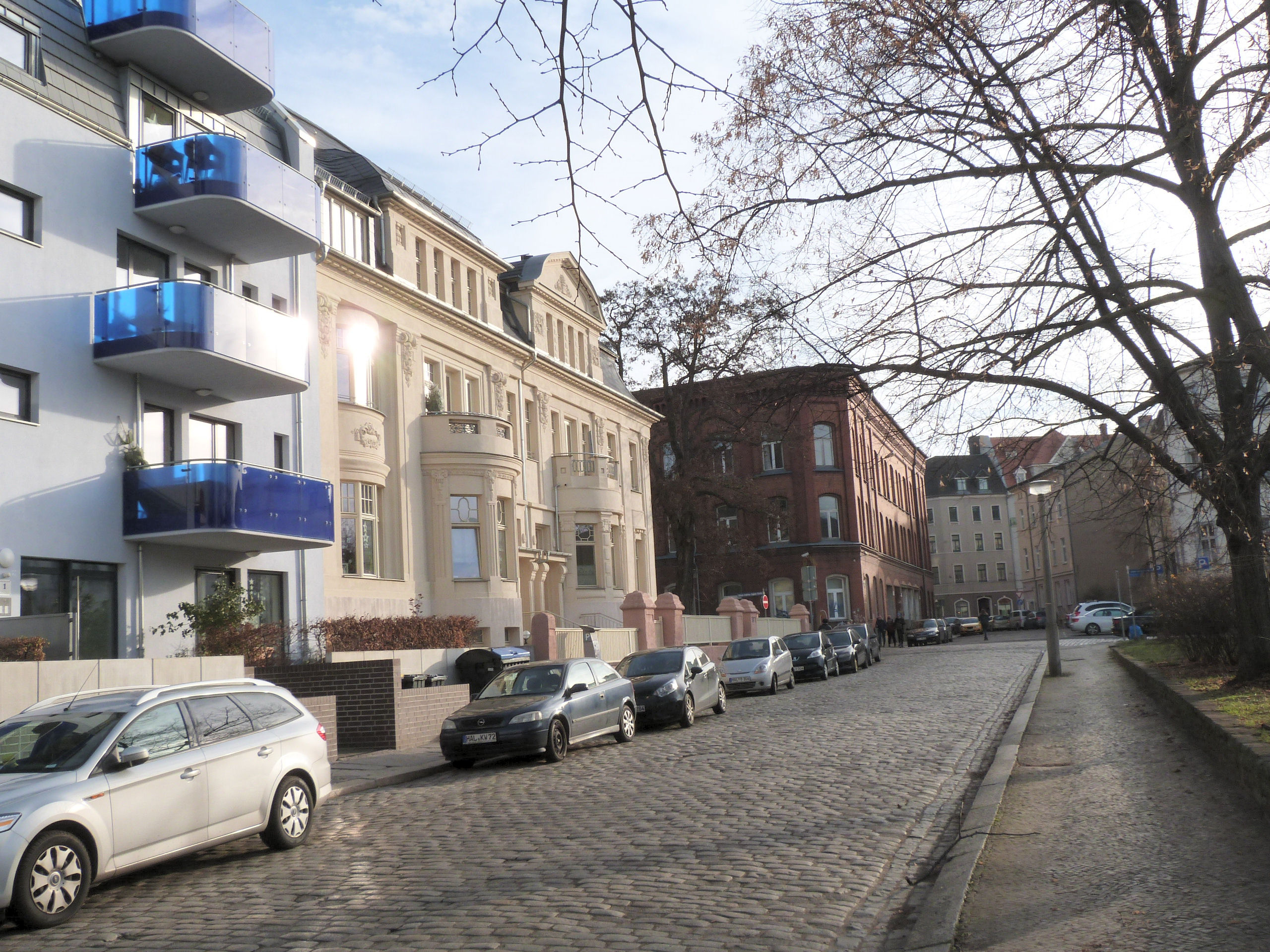 Ludwig-Stur-Strasse in Halle (Saale), Saxony-Anhalt, Germany